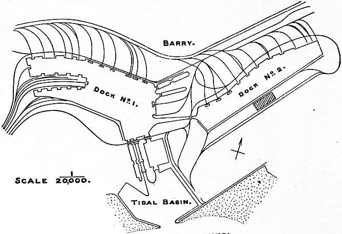 Barry Docks.